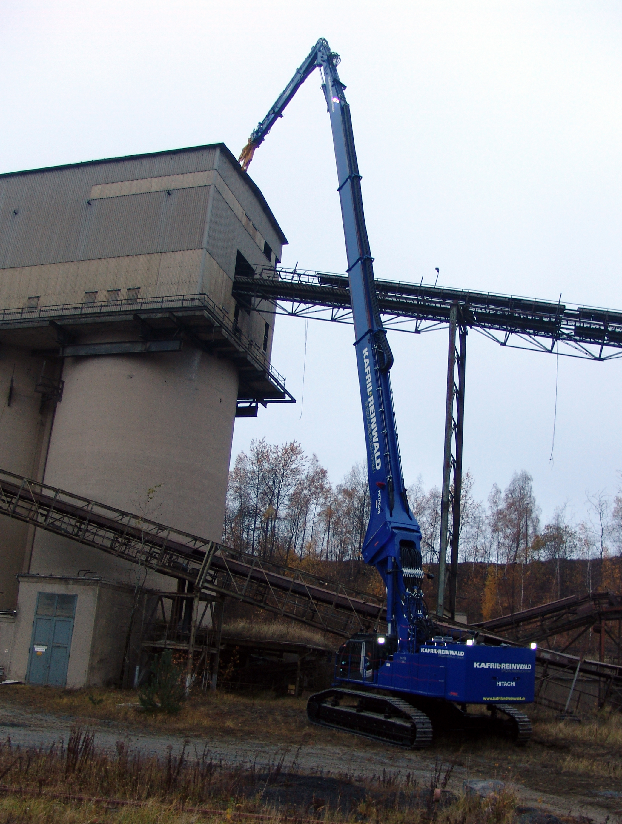 Hitachi ZX870LCD-3 XXL Demolition